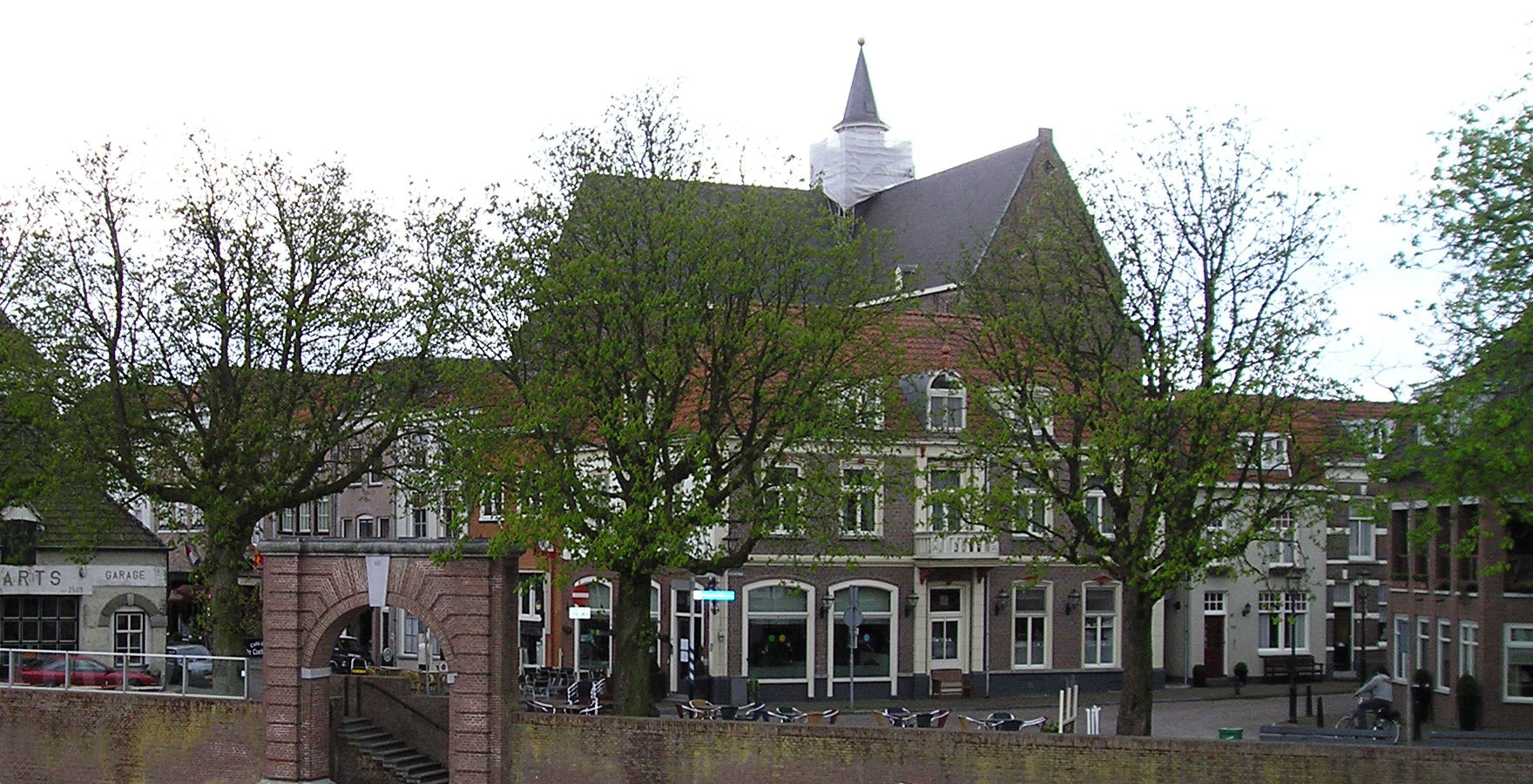 Skyline Grave